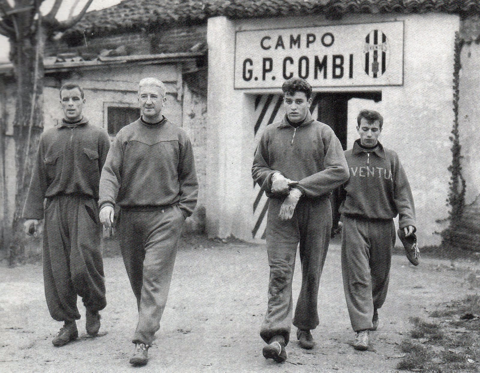 Turin. Players of Juventus F.C. traning at "Combi" field during the 1957-58 sport season. From left to right Welshman John Charles, Yugoslav Ljubiša Broćić (head coach), and the Italians Carlo Mattrel and Gino Stacchini.